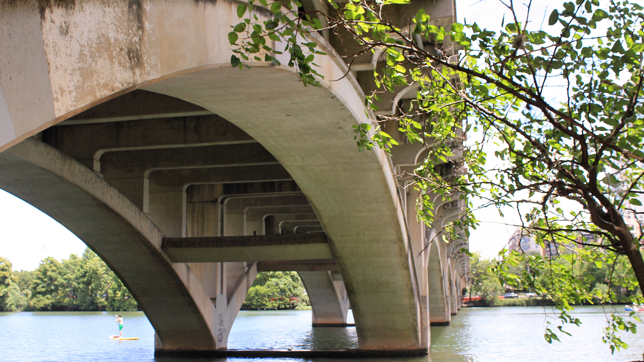 Substructure of the historic Lamar Boulevard Bridge across Lady Bird Lake in Austin, Texas, United States.